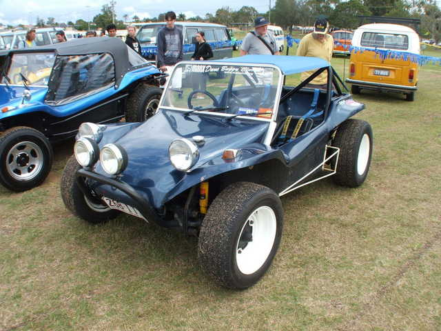 Photo of a Meyers Manx at a car show in Brisbane, Qld, Australia. Photo was taken by Michael Morley with a Fuji 3500 camera. Additional Uploads can be found here